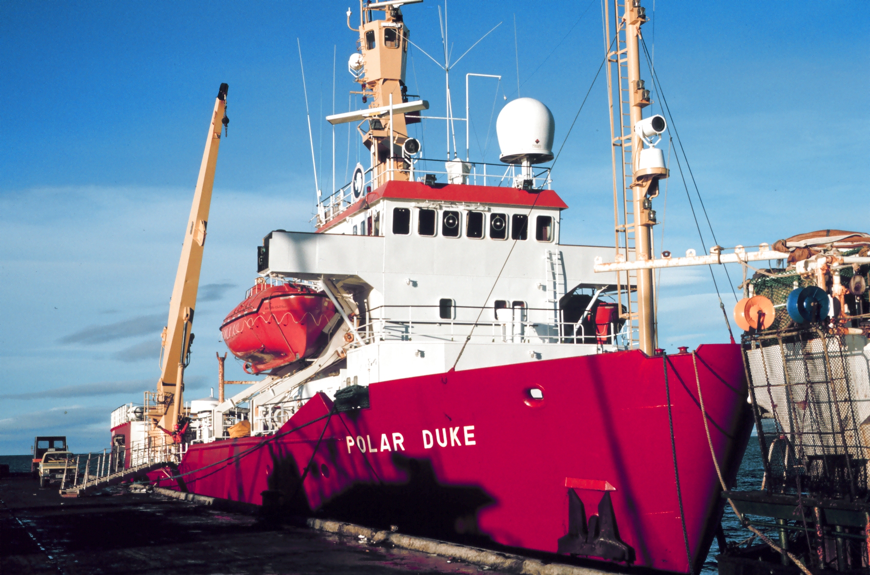 The RV POLAR DUKE, a vessel that crushes ice with a strengthened hull. This was a leased Norwegian vessel.